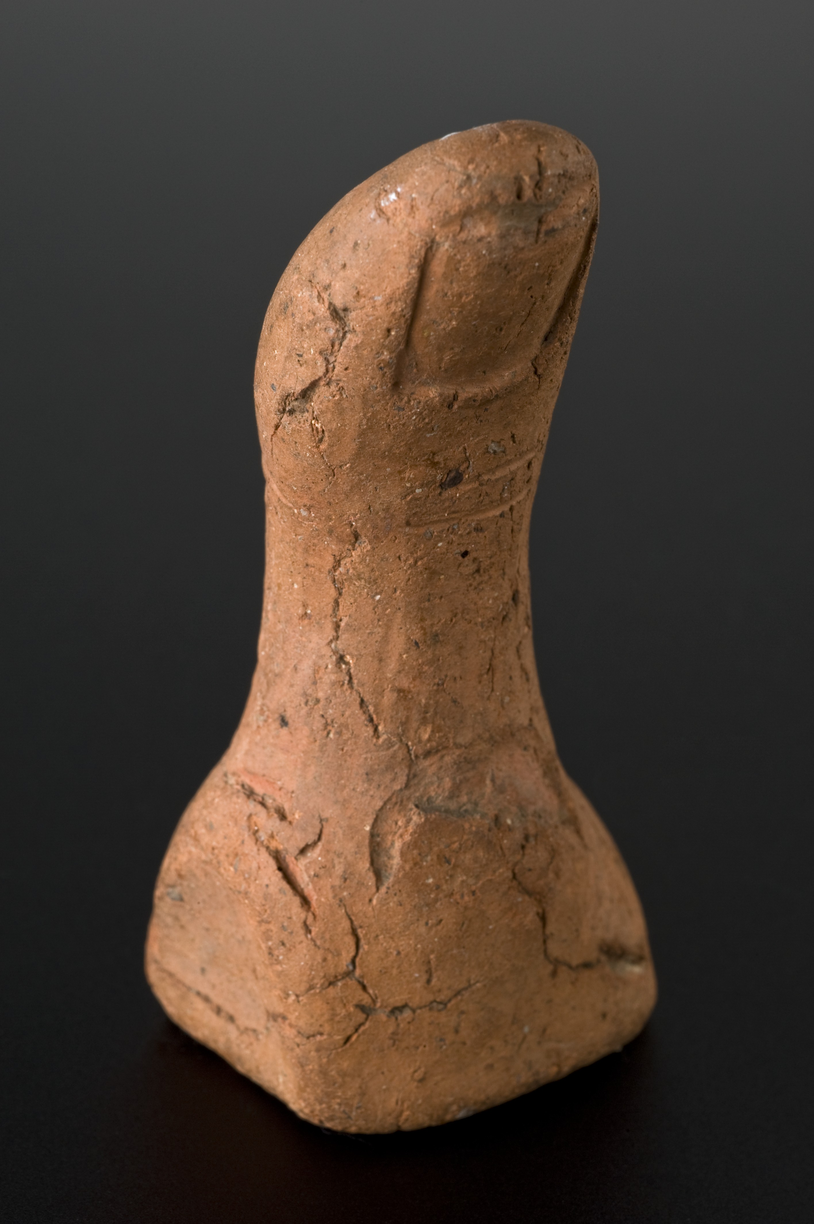 Objects like this thumb were left at healing sanctuaries and other religious sites as offerings to gods such as Asklepios, the Greco-Roman god of medicine. It was intended either to indicate the part of the body that needed help or as thanks for a cure. Made from bronze or terracotta, as in this case, a large range of different votive body parts were made and offered up in their thousands. Although it originated in earlier cultures, this practice became very popular in Roman Italy – particularly between the 400s and 100s BCE. Perhaps this donor left the thumb because his or hers was broken or sore? maker: Unknown maker Place made: Roman Republic and Empire Wellcome Images Keywords: votive offering; incubation; Thumb